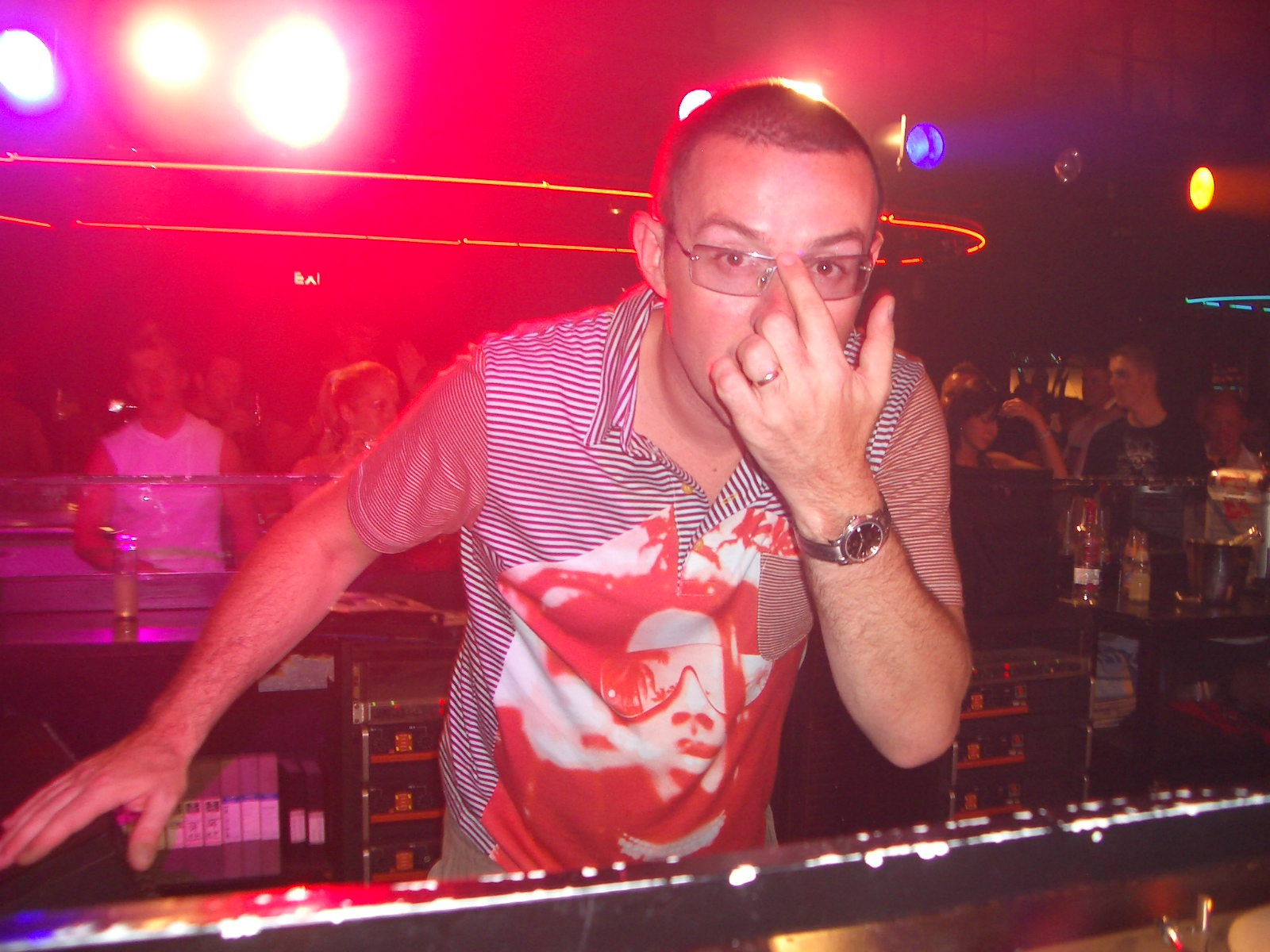 Judge Jules - Playing at BCM (nightclub) Mallorca Taken by Jamie Green, Taken: 02/08/2005 at 1am